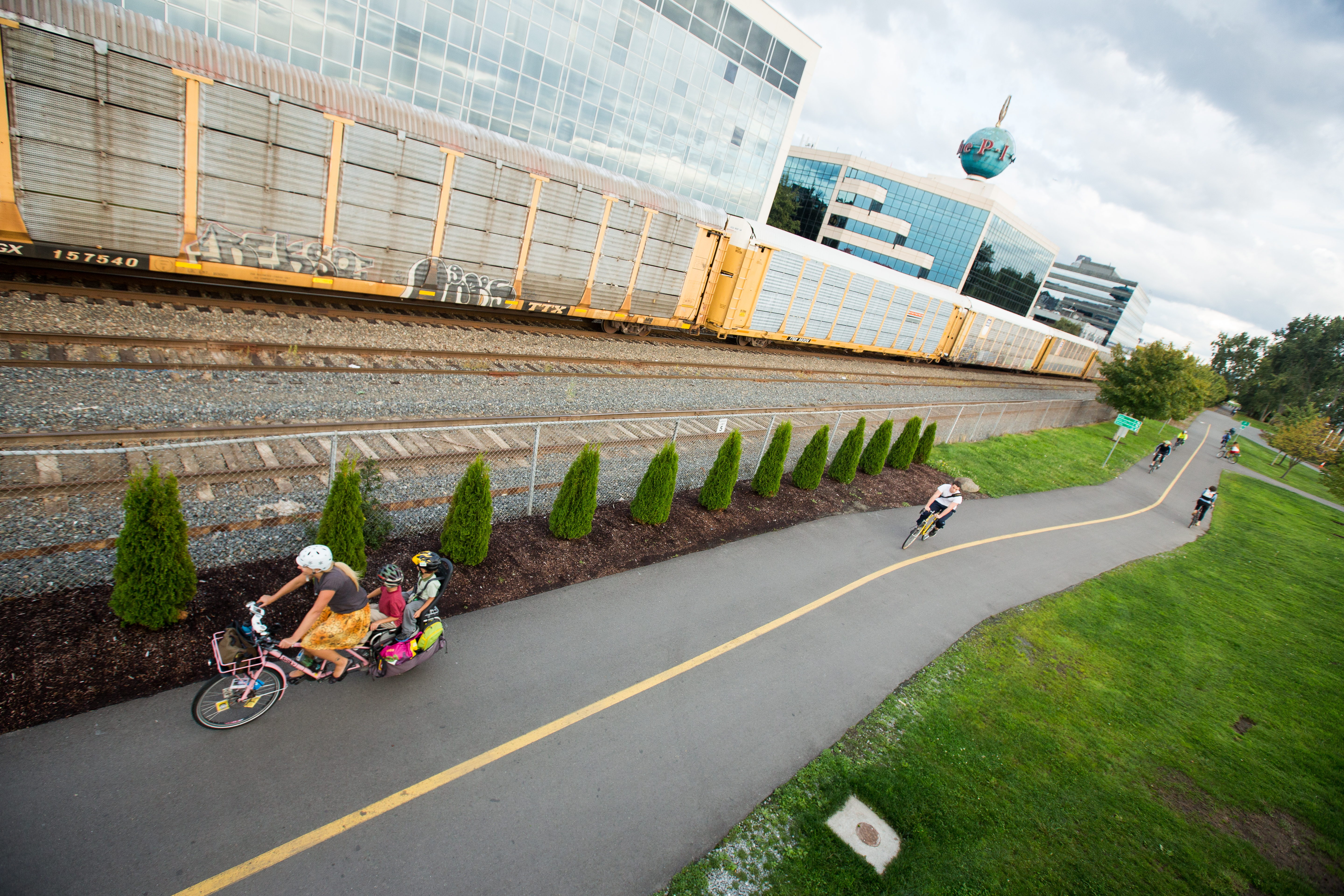 The Elliot Bay Trail in Seattle, Washington, USA.